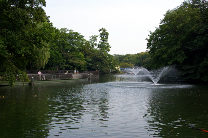 Inokasira Park in Tokyo, Japan, near Bentendou. Photo taken by Los688, 2005 Sep 19.